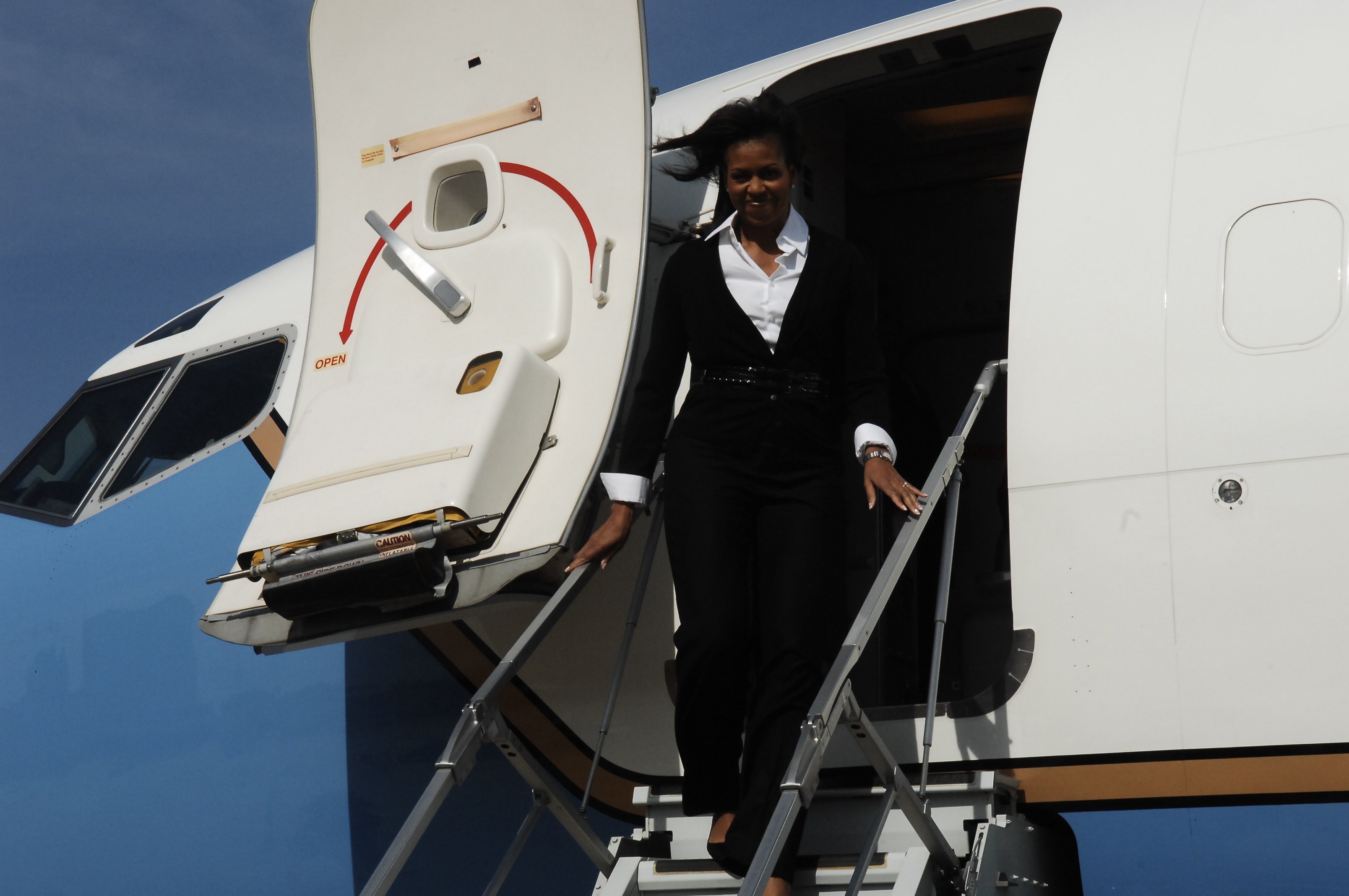 First lady Michelle Obama exits a U.S. Air Force C-40 aircraft upon arriving at Pope Air Force Base (AFB), N.C., March 12, 2009. Obama will visit Fort Bragg and Fayetteville while in North Carolina. VIRIN: 090312-F-6429M-001